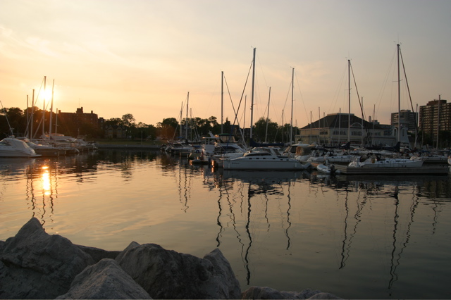 Object: Marina at Lake Ontario, Canada Source: self Photographer: Nils Fretwurst / Foto: Nils Fretwurst Date: July 2005